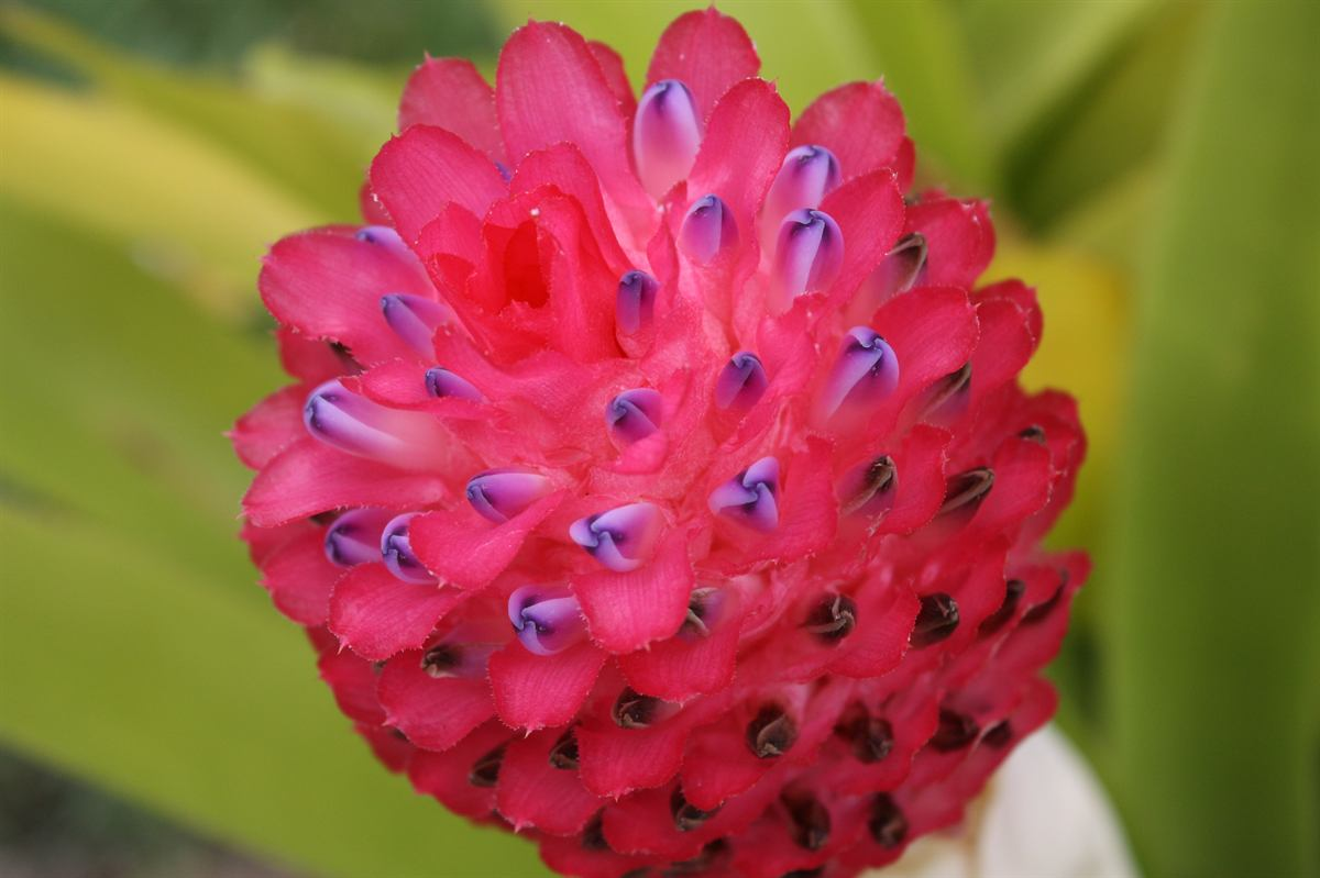 Quesnelia testudo flowers.